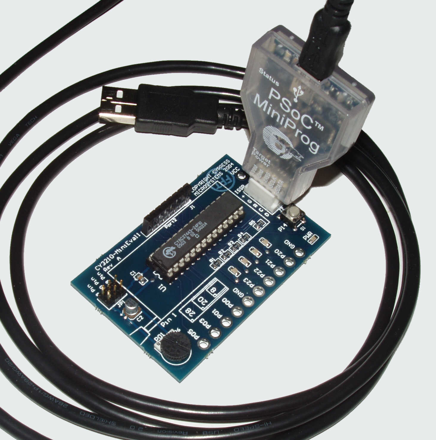 CY3210-MiniEval1 - Smallest Development Kit from Cypress Semiconductor for PSoC Microcontroller